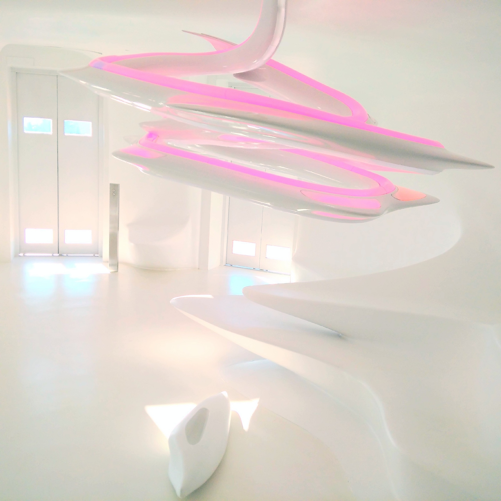 Fluid interior of the Silken Puerta America Hotel in Madrid by Zaha Hadid (1st floor), 2014